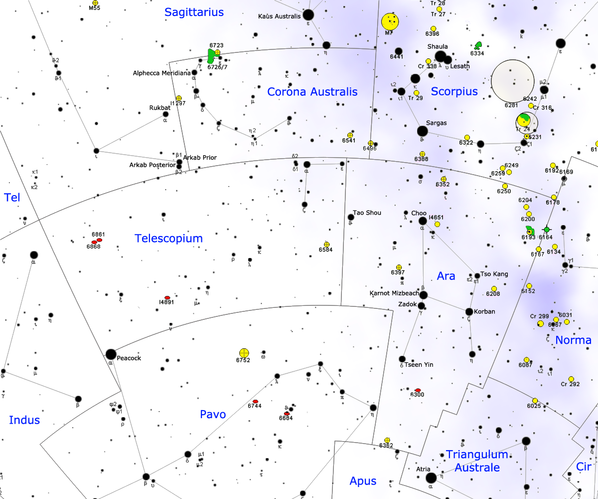 Map of Ara, Corona Australis and Telescopium